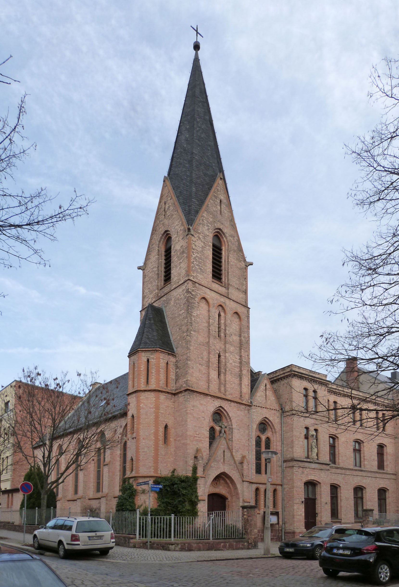 Roman Catholic St. Norbert Church in Halle (Saale), Körnerstrasse